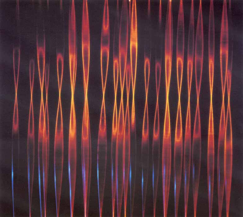 Tsai's Harmonic Sculpture, 1969